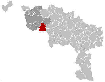 Map, municipality belgium Péruwelz